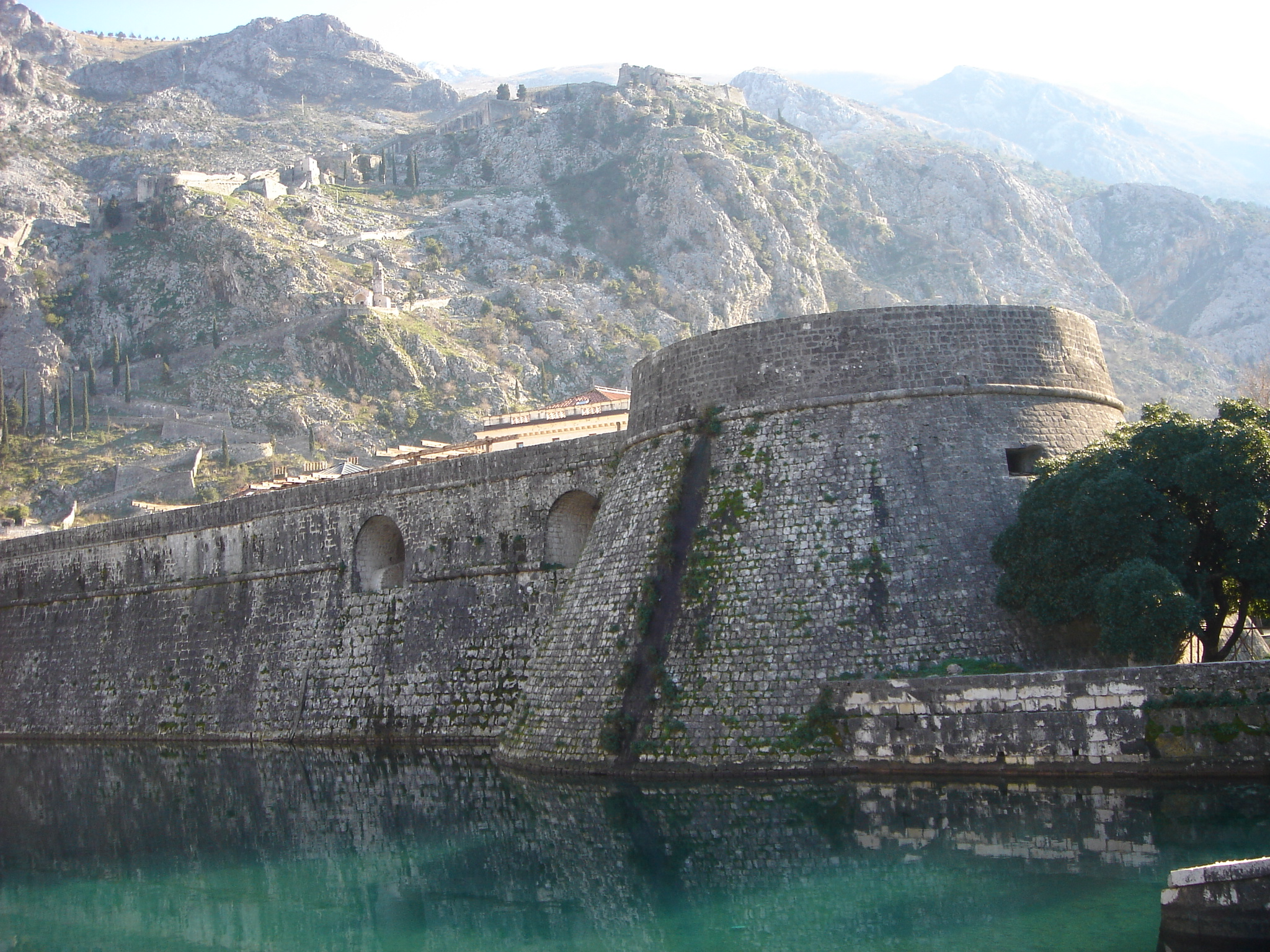 Natural and Culturo-Historical Region of Kotor (Montenegro)